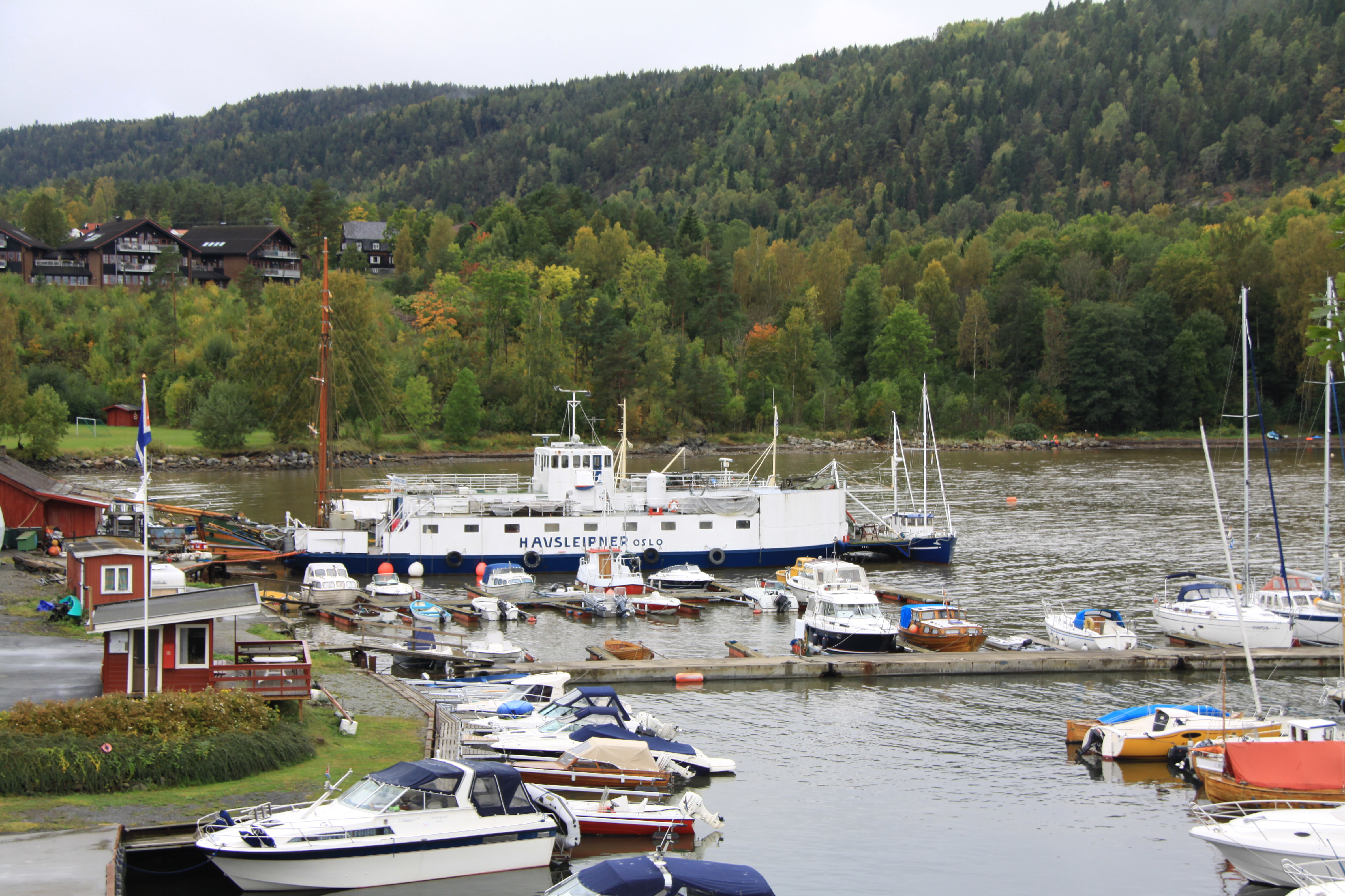 IMG_3156 The harbour, Nærsnes by the Oslofjord